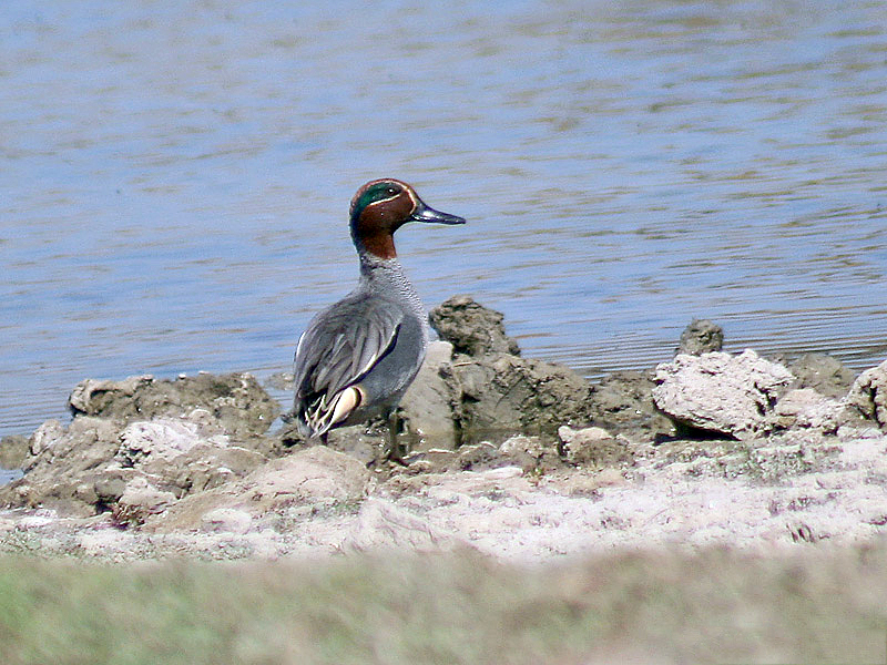 Common Teal (Anas crecca) at Hodal in Faridabad District of Haryana, India.